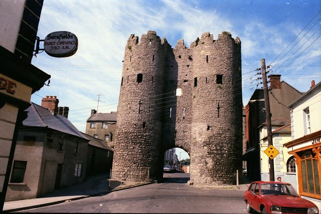 St. Laurence's Gate, Drogheda The 13th-century barbican of St. Laurence's Gate viewed from the Chord Road side.